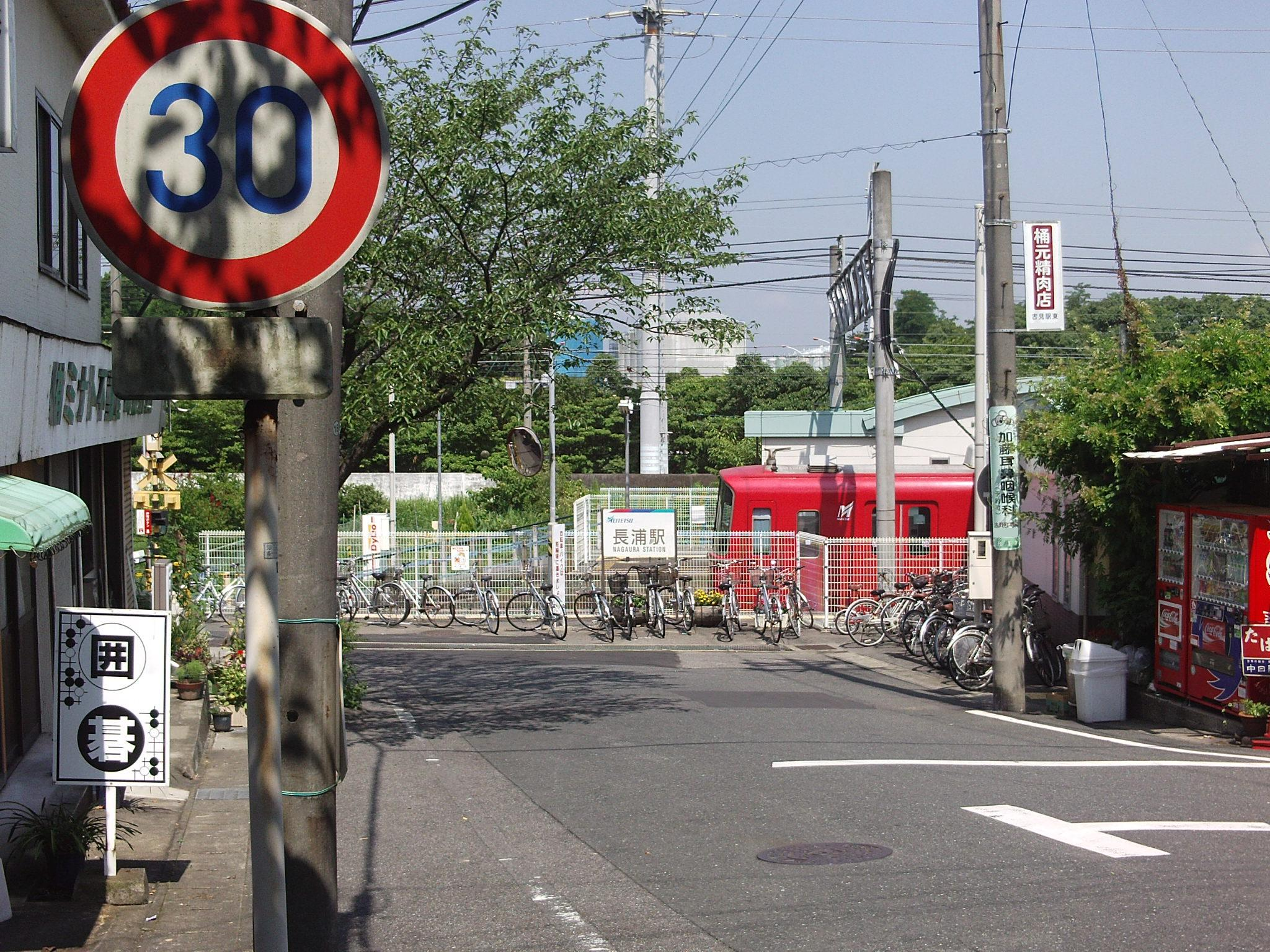 Aichi prefectural road No.258 in Nagaura 1-chome, Chita, Aichi.